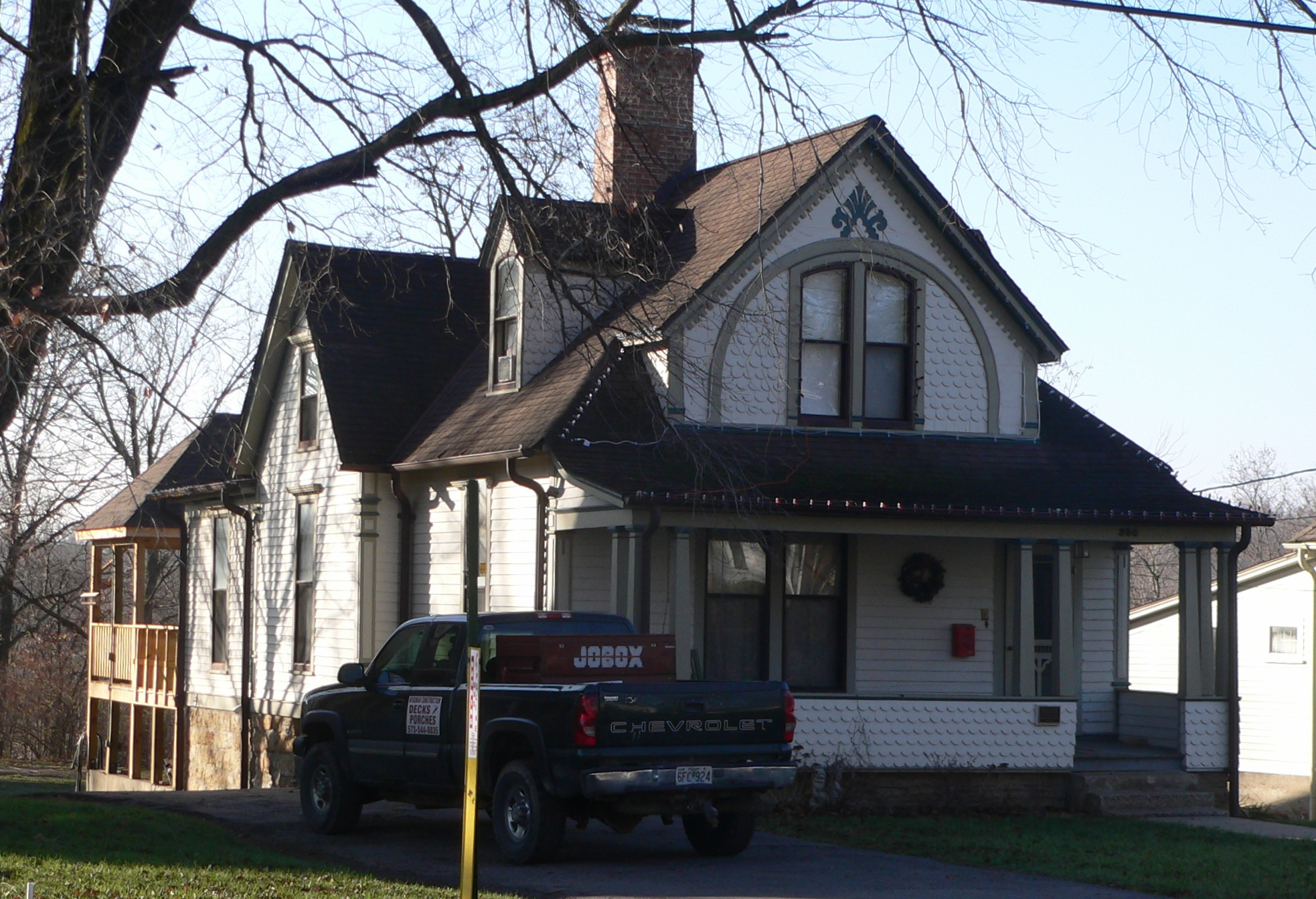 House at 304 E. 5th Street in Fulton, Missouri; seen from the northeast.